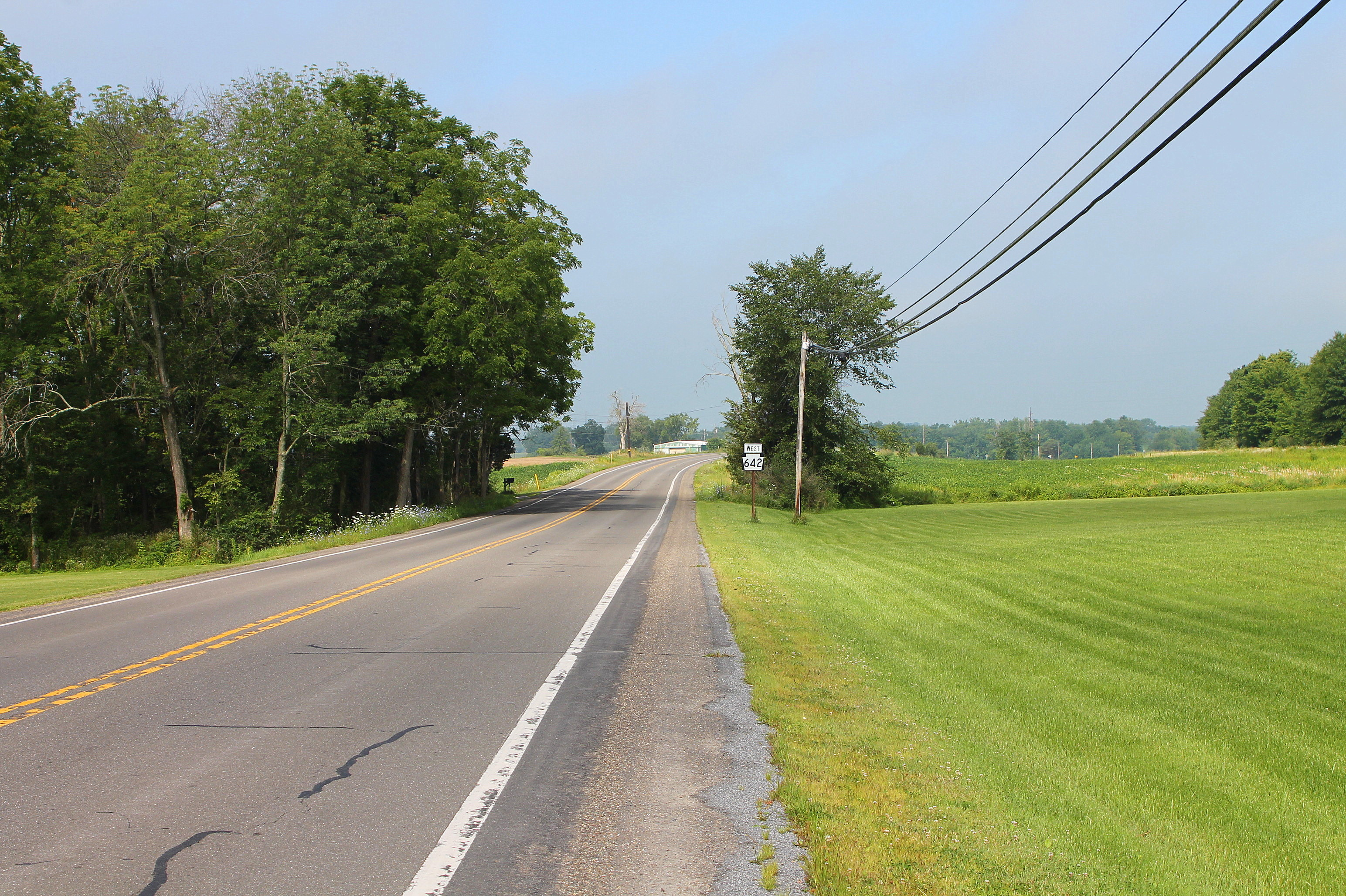 Pennsylvania Route 642 west in Liberty Township, Montour County, Pennsylvania